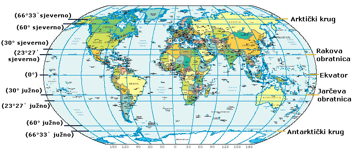 map of the earth with main latitudes labeled